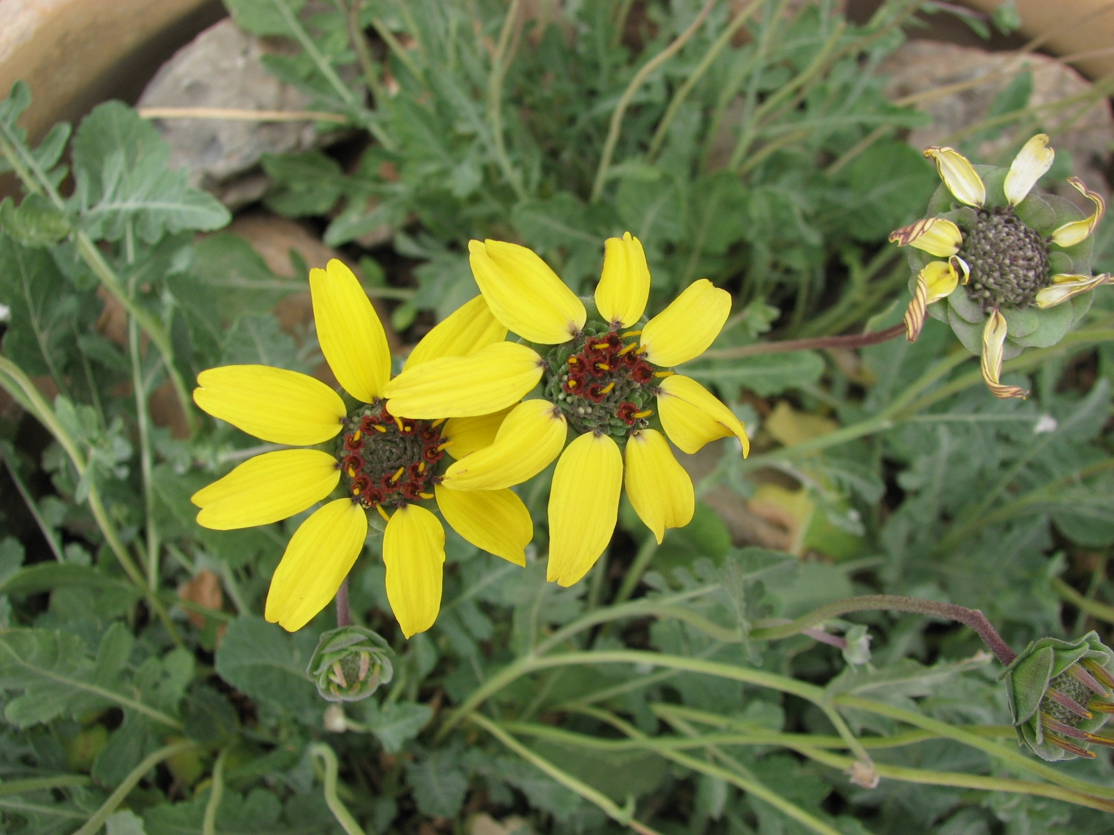 Berlandiera lyrata (cultivated, labelled) Arizona-Sonora Desert Museum, Tucson, Arizona